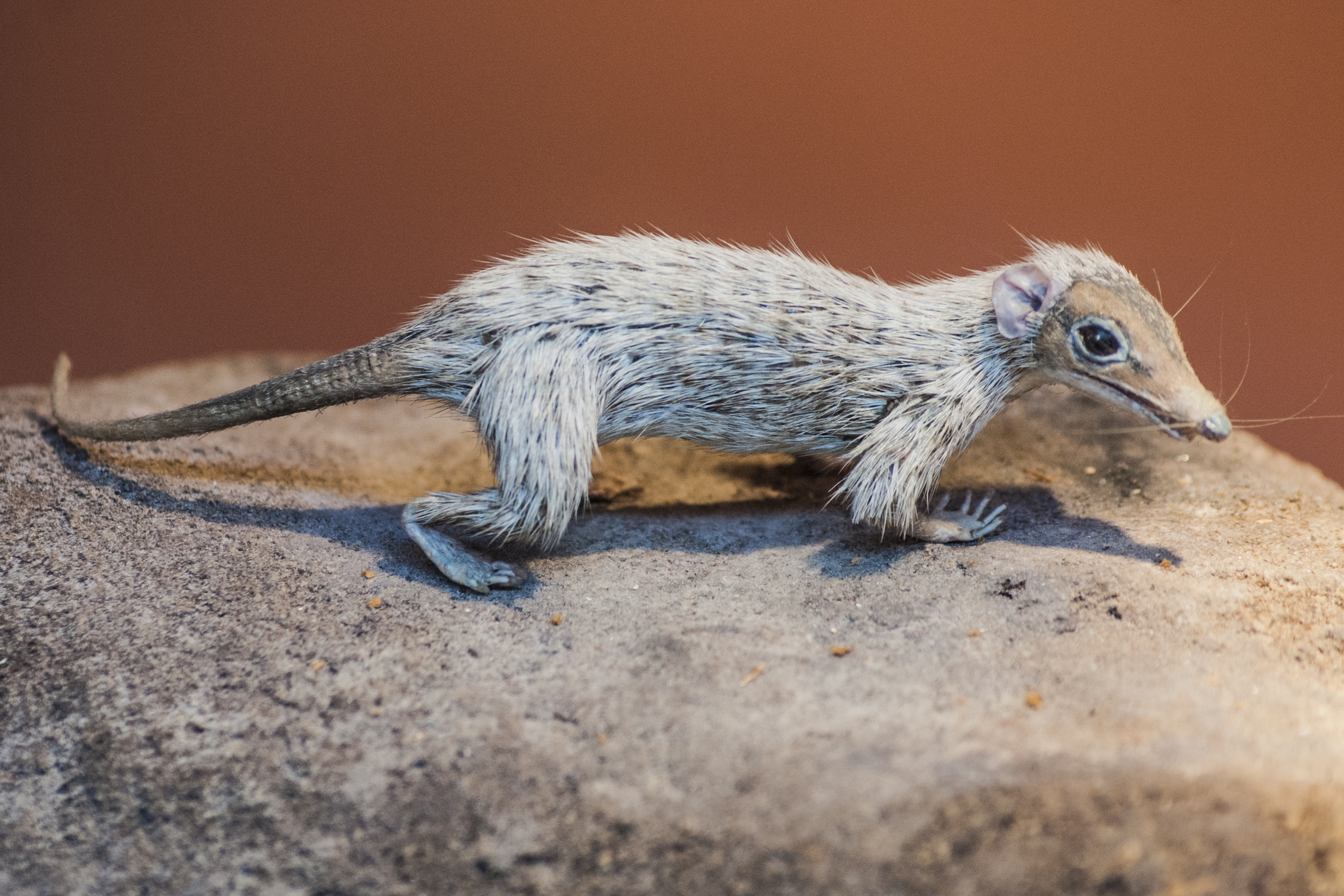 Reconstruction of a Megazostrodon species, in the Natural History Museum, London.